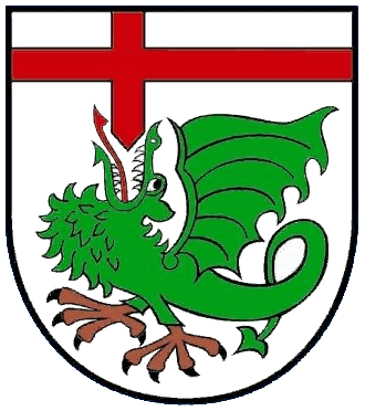 Coat of arms of Großneuhausen